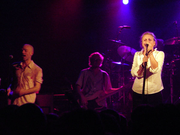 Linda Hopper singing with R.E.M. on the Magnapop song "Favorite Writer" in 2003. Singer Michael Stipe and bassist Mike Mills are visible to her left.